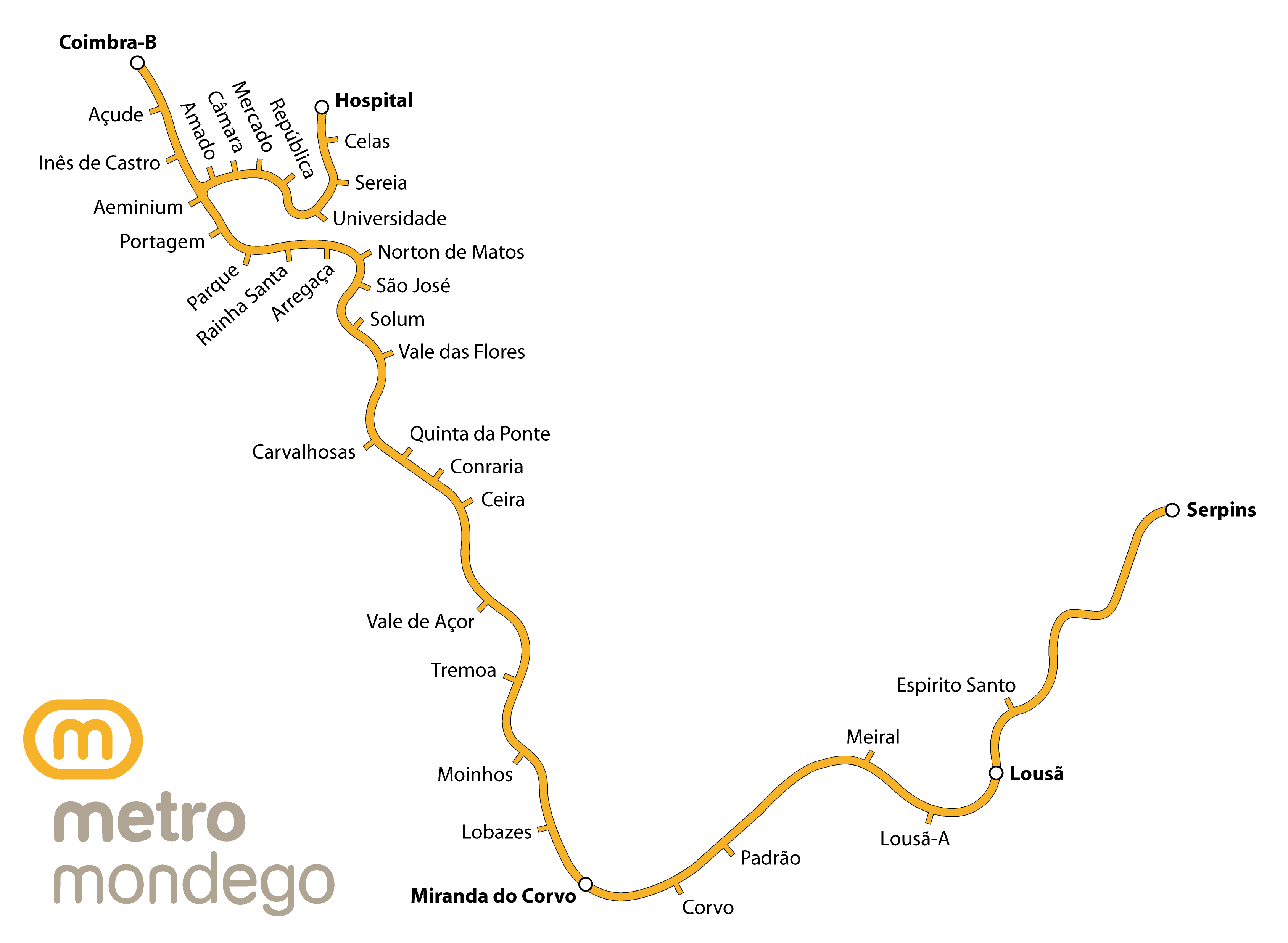 Metro Mondego Route Map